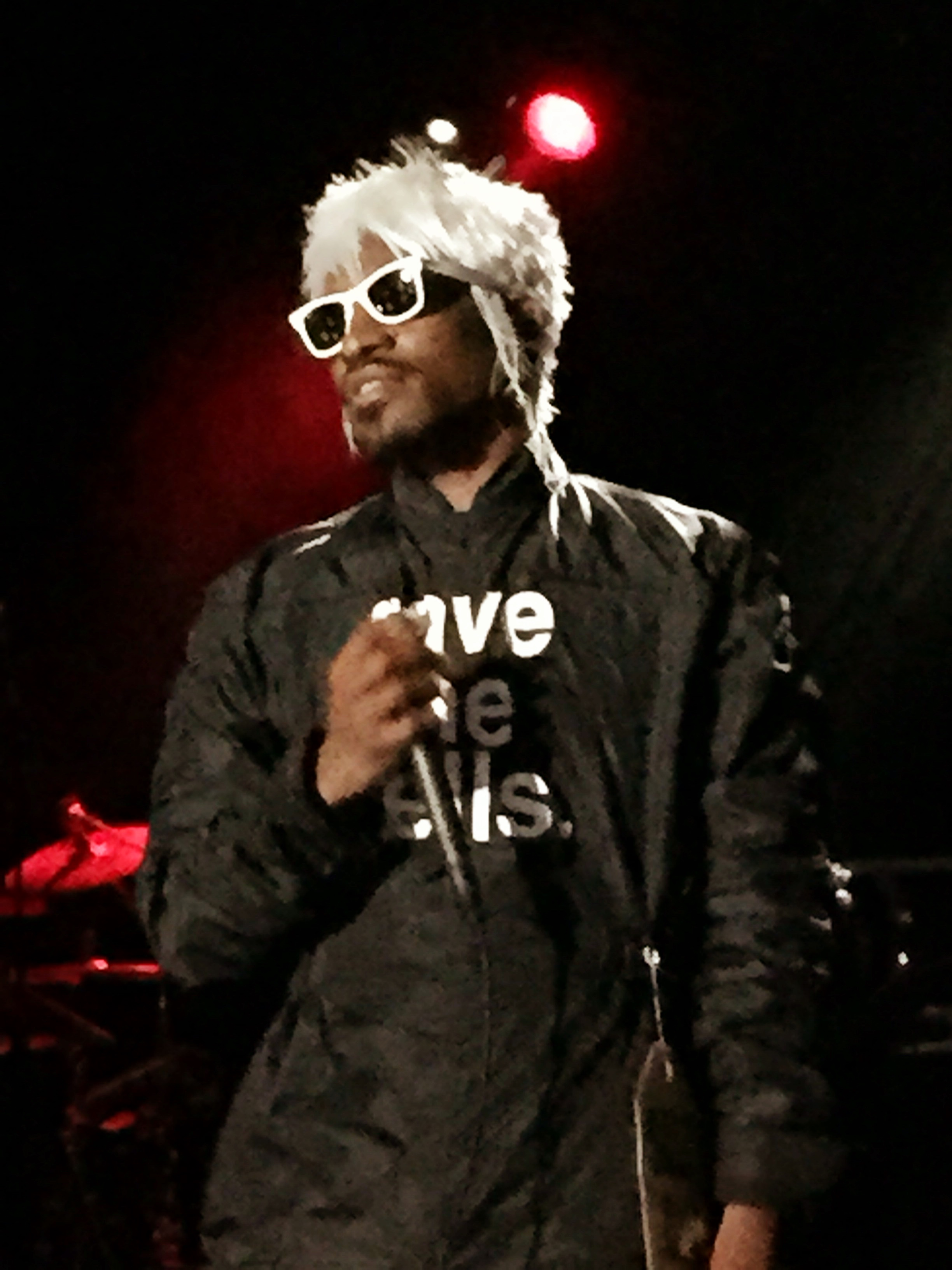 Andre 3000 performing at the Best Buy Theater in Times Square New York for the Advertising Week party.